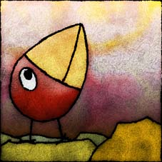 "iBeak 10", giclée graphics by Nerva